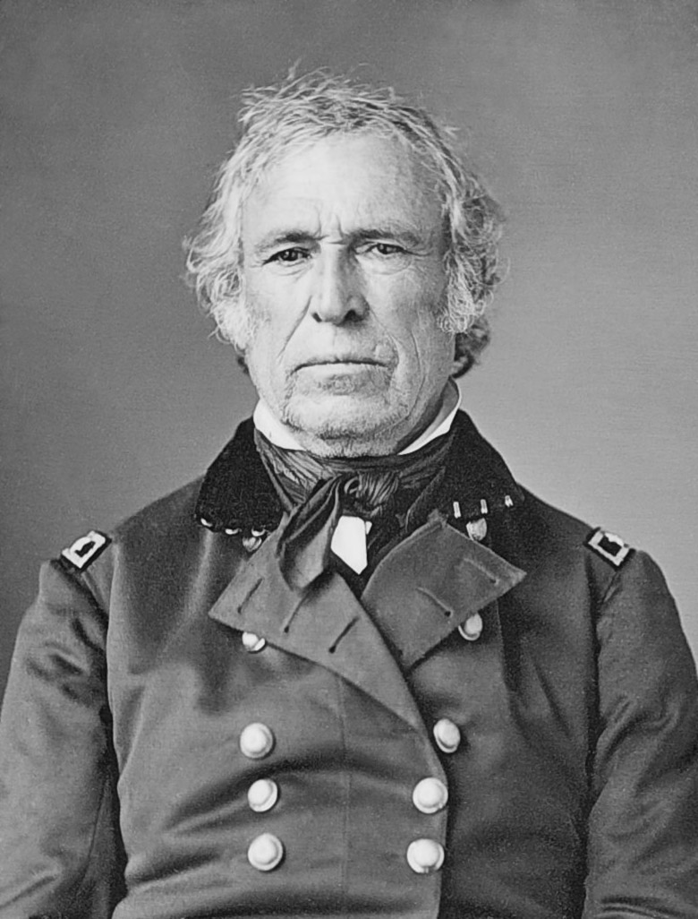 Half-Plate Daguerreotype of Zachary Taylor, cropped 8x10 to remove framing.